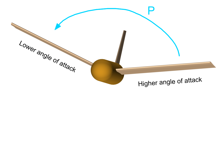 On the explanation of the dihedral angle effect, diagram 2. Drawn by Sergey Khantsis.